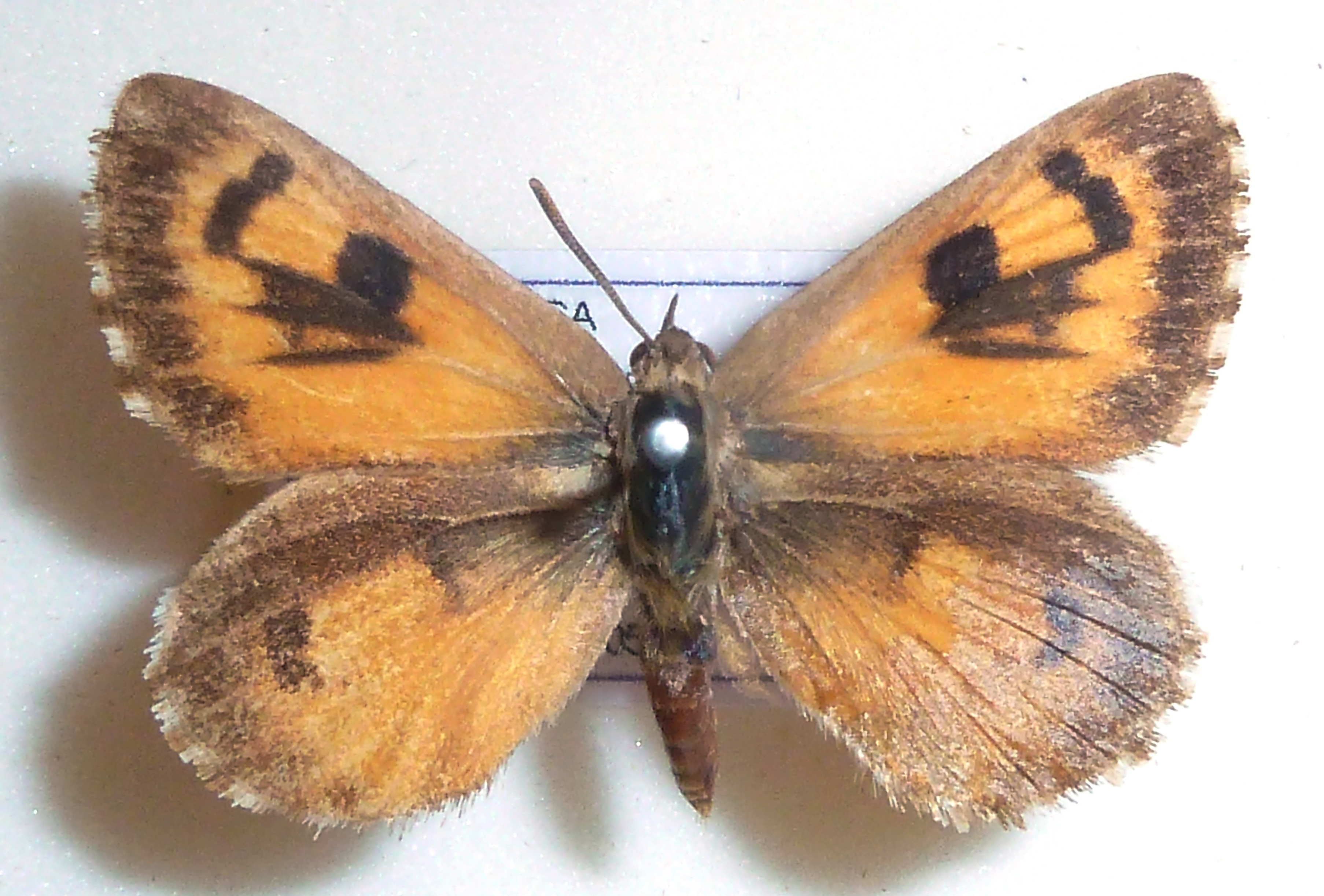 Desert Boland skolly in a collection of J Dobson